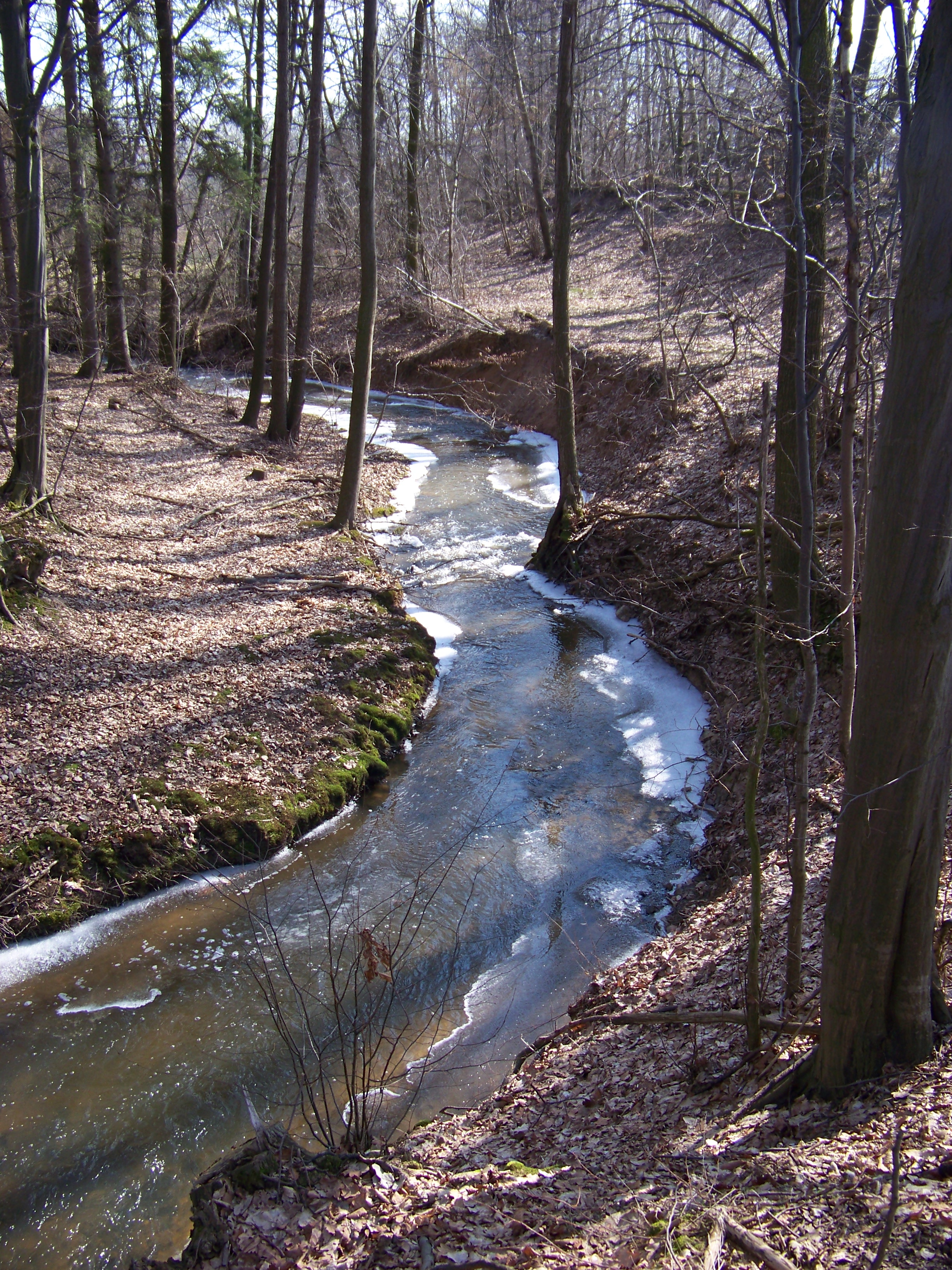 Chlístovice-Zdeslavice, Kutná Hora District, Central Bohemian Region, the Czech Republic. Zdeslavický Creek.